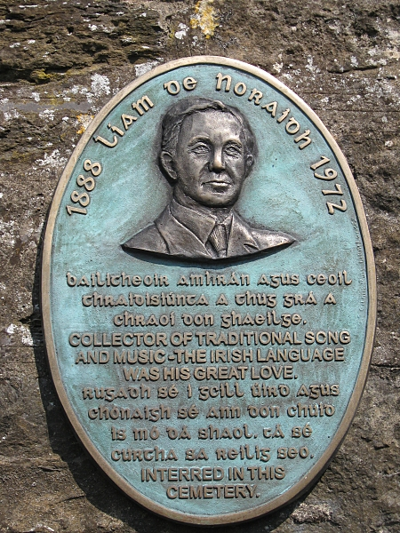 Commemorative Plaque Plaque commemorating Liam de Noraidh a collector of traditional Irish music and song who lived in Kilworth.